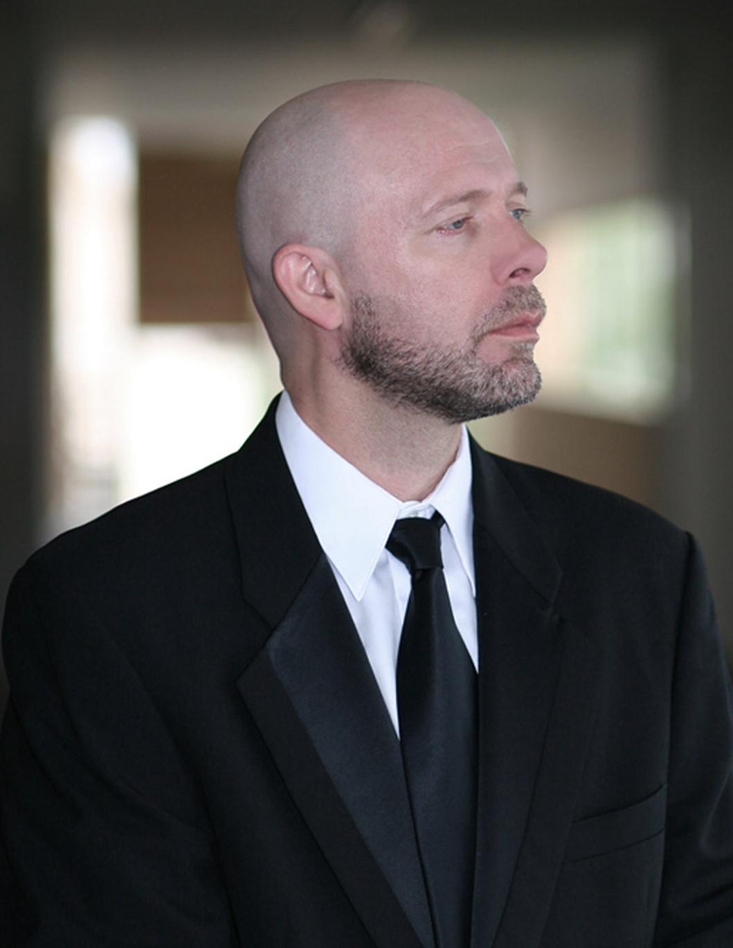 Bruno Tatalović Српски (ћирилица): Бруно Таталовић Srpski (latinica): Bruno Tatalović